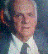 Perfil